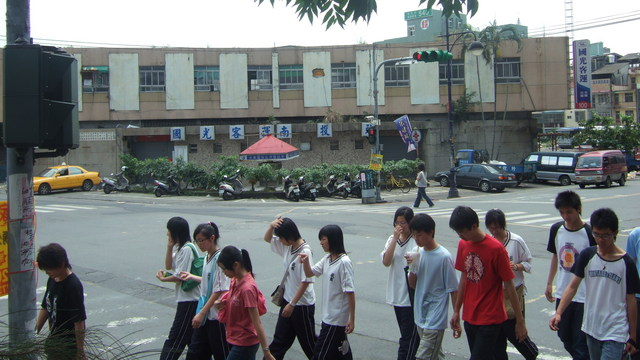 Nantou Station of Kuo-Kuang Motor Transportation Company, Ltd.中文（台灣）: 國光客運南投站（原台灣汽車客運公司南投站）